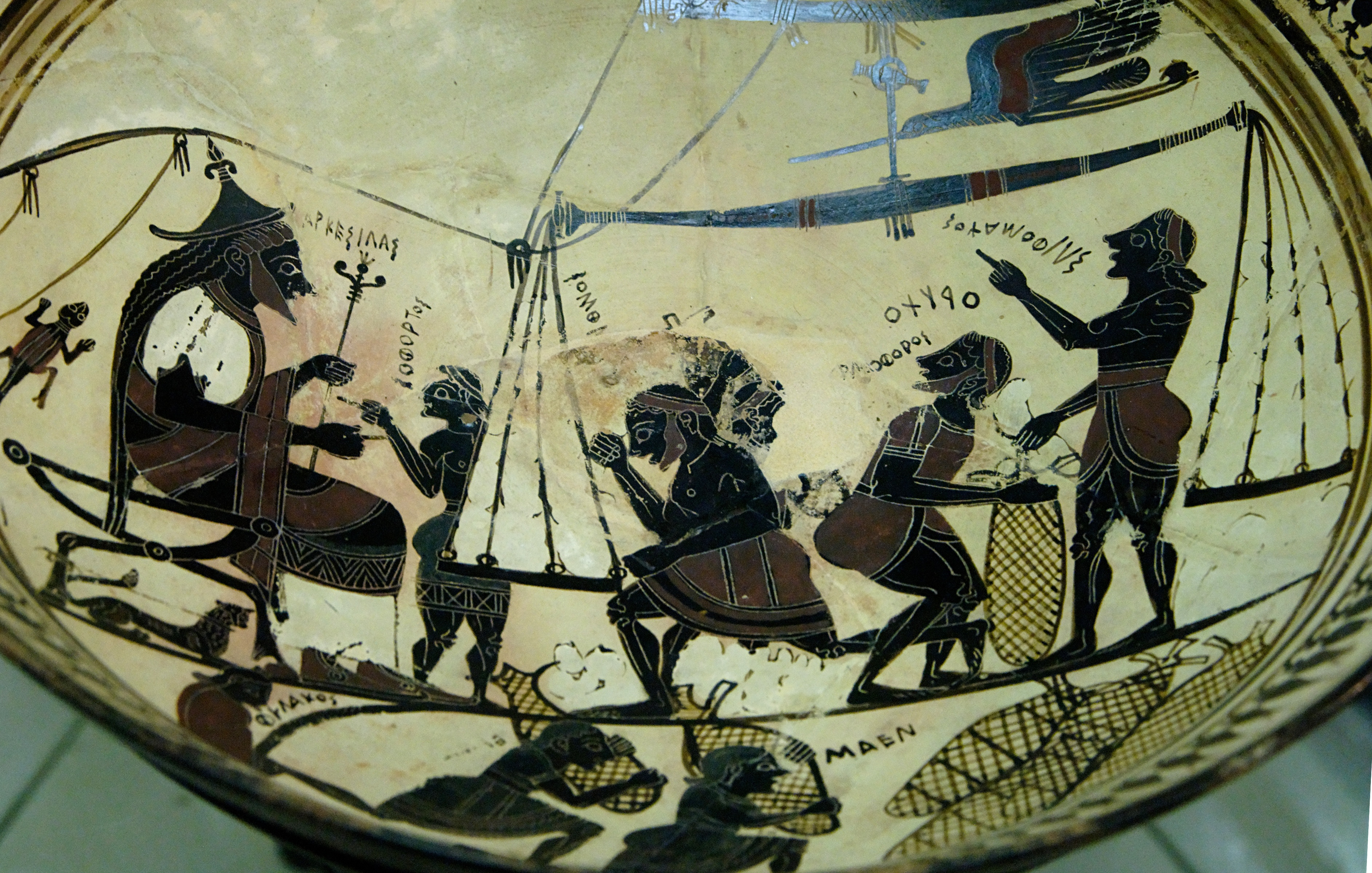 Laconian black-figure cup found Vulci, Etruria. On tondo: the Cyrenian king Arkesilas watching over the bundling of wool (Boardman) or the preparation of silphion.